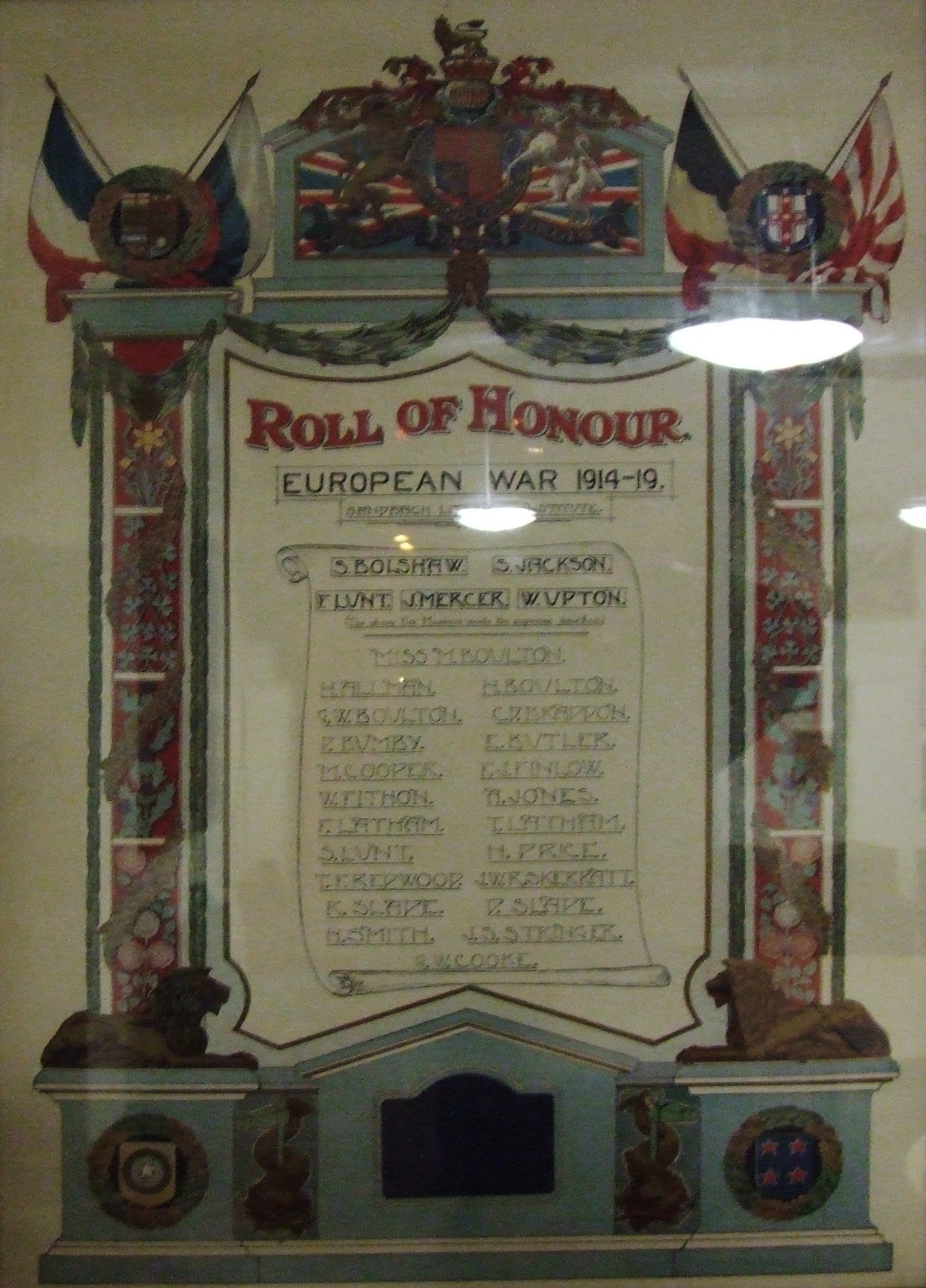 Sandbach Roll of Honour European War (1914-1919) The text reads: ROLL OF HONOUR EUROPEAN WAR 1914 - 19. SANDBACH LITERARY INSTITUTE S BOLSHAW S JACKSON F LUNT J MERCER W UPTON The above Five Members made the supreme sacrifice. Miss M BOULTON, H ALLMAN, G W BOULTON, P BUMBY, M COOPER, W FITHON, F LATHAM, S LUNT, T F REDWOOD, R SLADE, H SMITH, H BOULTON, C D BRADDON, E BUTLER, F J FINLOW, A JONES, T LATHAM, H PRICE, J W R SKERRATT, D SLAVE, J S STRINGER, G W COOKE